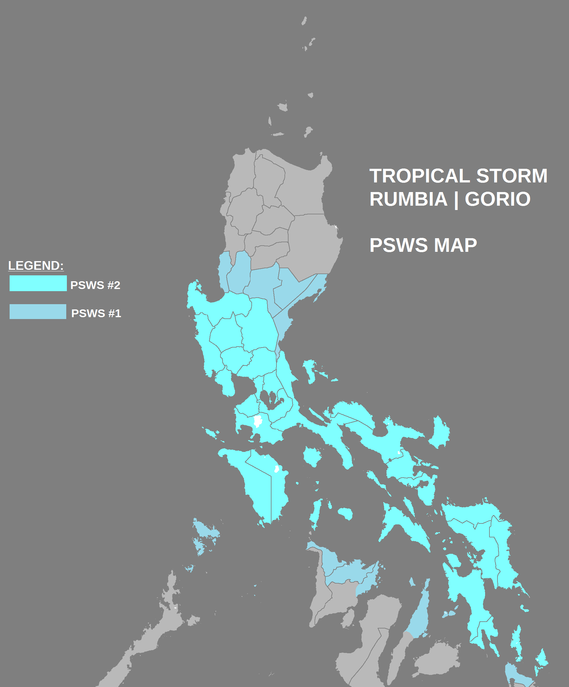 Highest Storm Warning Signal during the passage of Rumbia (Gorio) in the Philippines